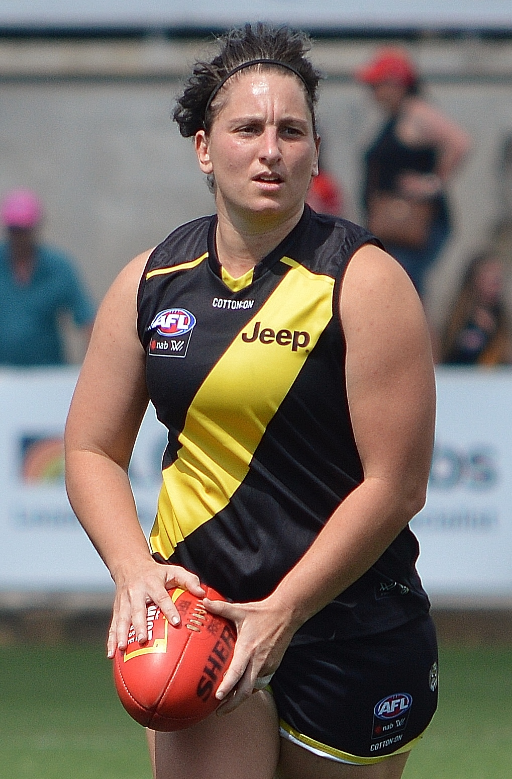 Lauren Tesoriero with Richmond during the round 3, 2020 AFL Women's match against North Melbourne at Ikon Park.